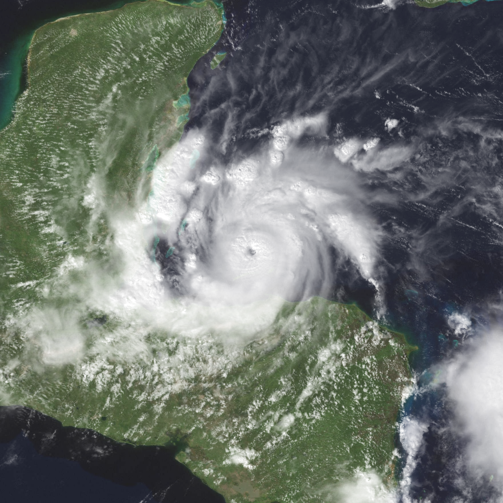 Hurricane Iris near peak intensity shortly before landfall in Belize on October 8, 2001